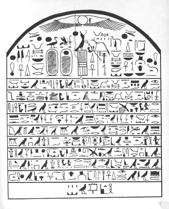 Drawing of an ancient Egyptian stela dated to regnal Year 4 of pharaoh Neferhotep I, usurped from a previous king (Wegaf or Seth Meribre). The text forbids the construction of tombs on the sacred processional way of Wepwawet at Abydos. From Abydos, 13th Dynasty, Middle Kingdom, now in Cairo (JE 35256). [ref: Leahy, Anthony (1989). "A Protective Measure at Abydos in the Thirteenth Dynasty". Journal of Egyptian Archaeology 75: 41–60.]